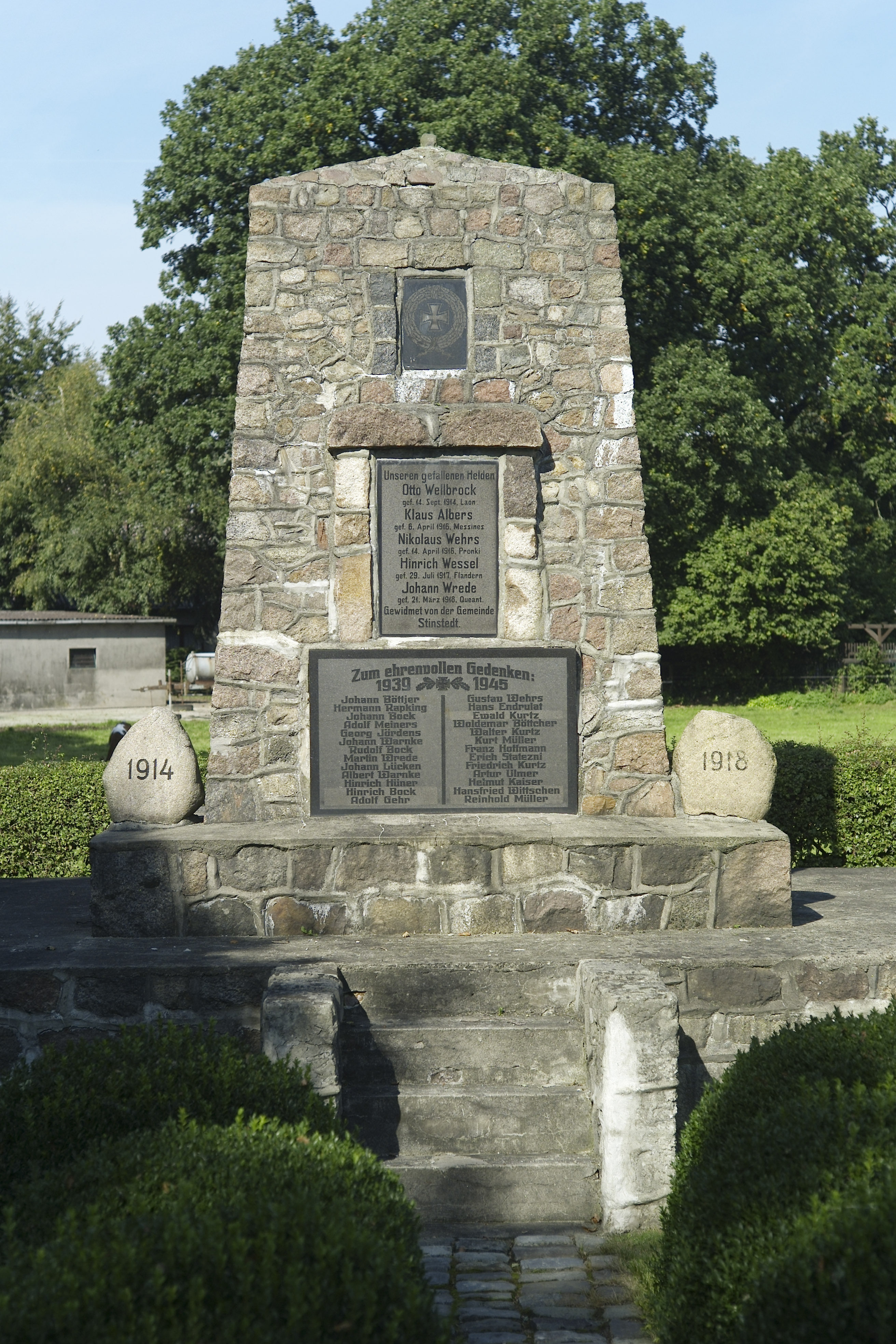 War memorial in Stinstedt, SE of Bremerhaven, Northern Germany